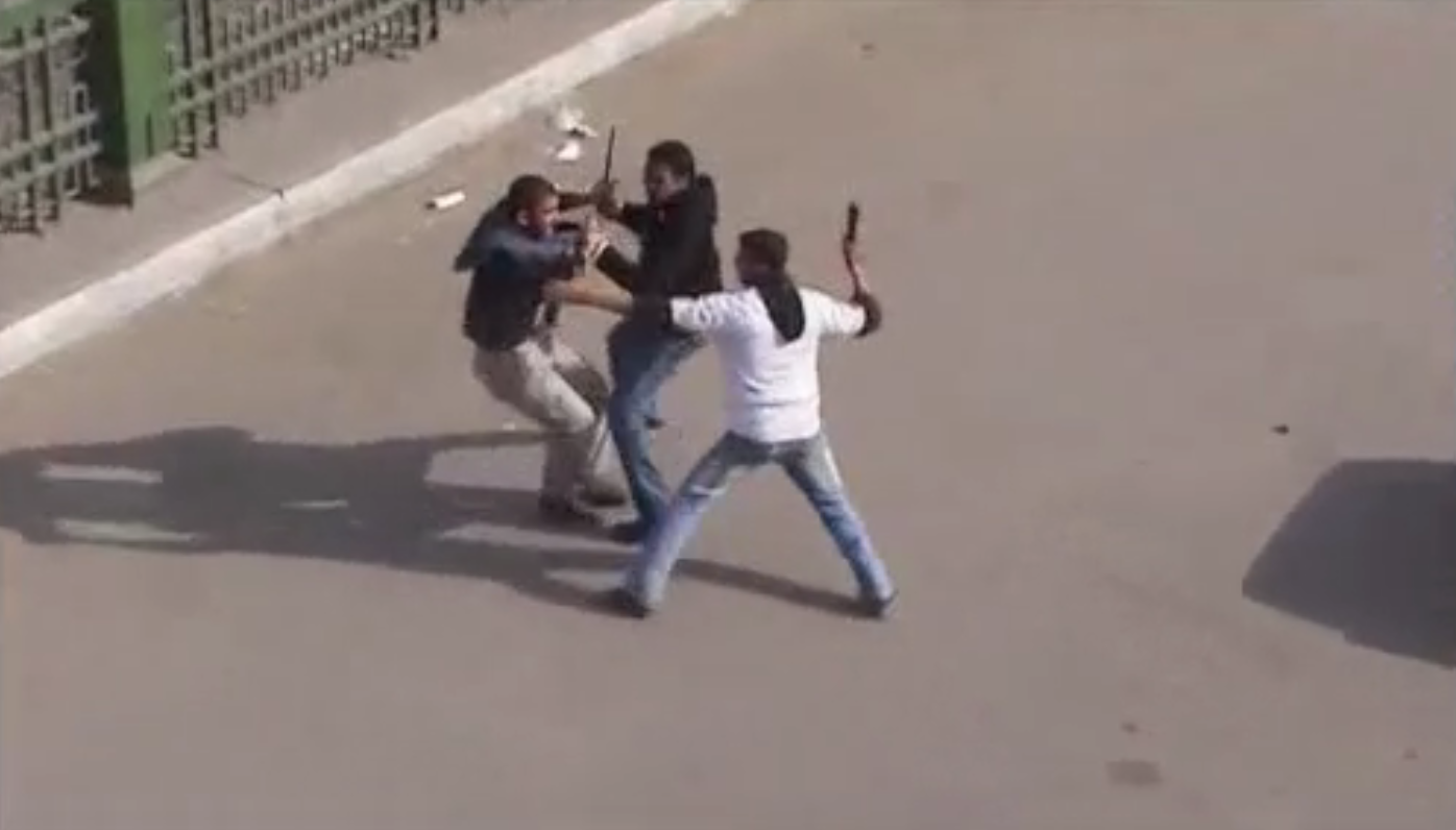 Police in civilian cloth beating a protester in Cairo 1 COMPILATION OF AL-JAZEERA RUSHES OF THE EVENTS IN EGYPT ON 28 JANUARY 2011. SHOTLIST: Close up shots of protesters, with commentary, tear gas, images of October 6 bridge from Al Jazeera’s office, police advancing, protesters shaking van, protesters participating in Friday prayers en masse outdoors, El Baradei in mosque, people affected by tear gas, violence on bridge, people looking for cover/running away, protesters surrounding police, Dan Nolan reporting - man approaches from behind, yells ‘don’t stay here Mubarek’, vehicle on fire on bridge.